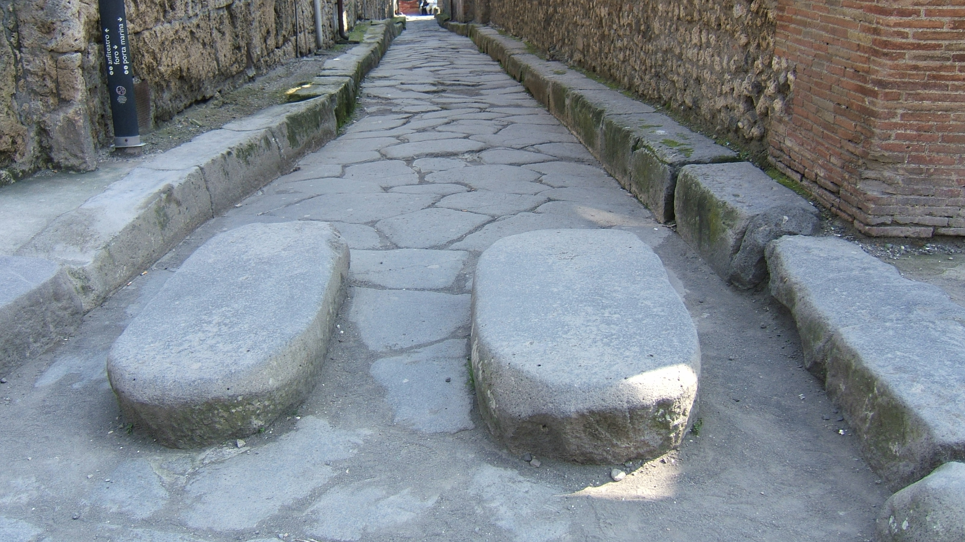 Crosswalk, Pompeii